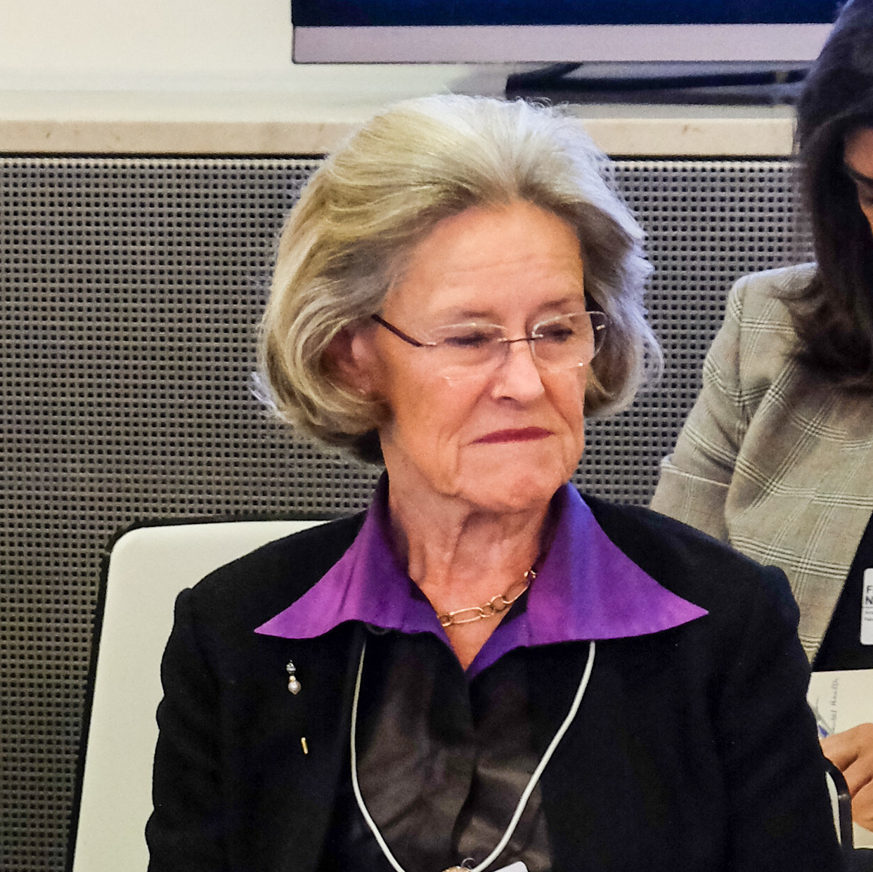 Social Entrepreneurs Wrap-up Njideka Harry and Hilde Schwab